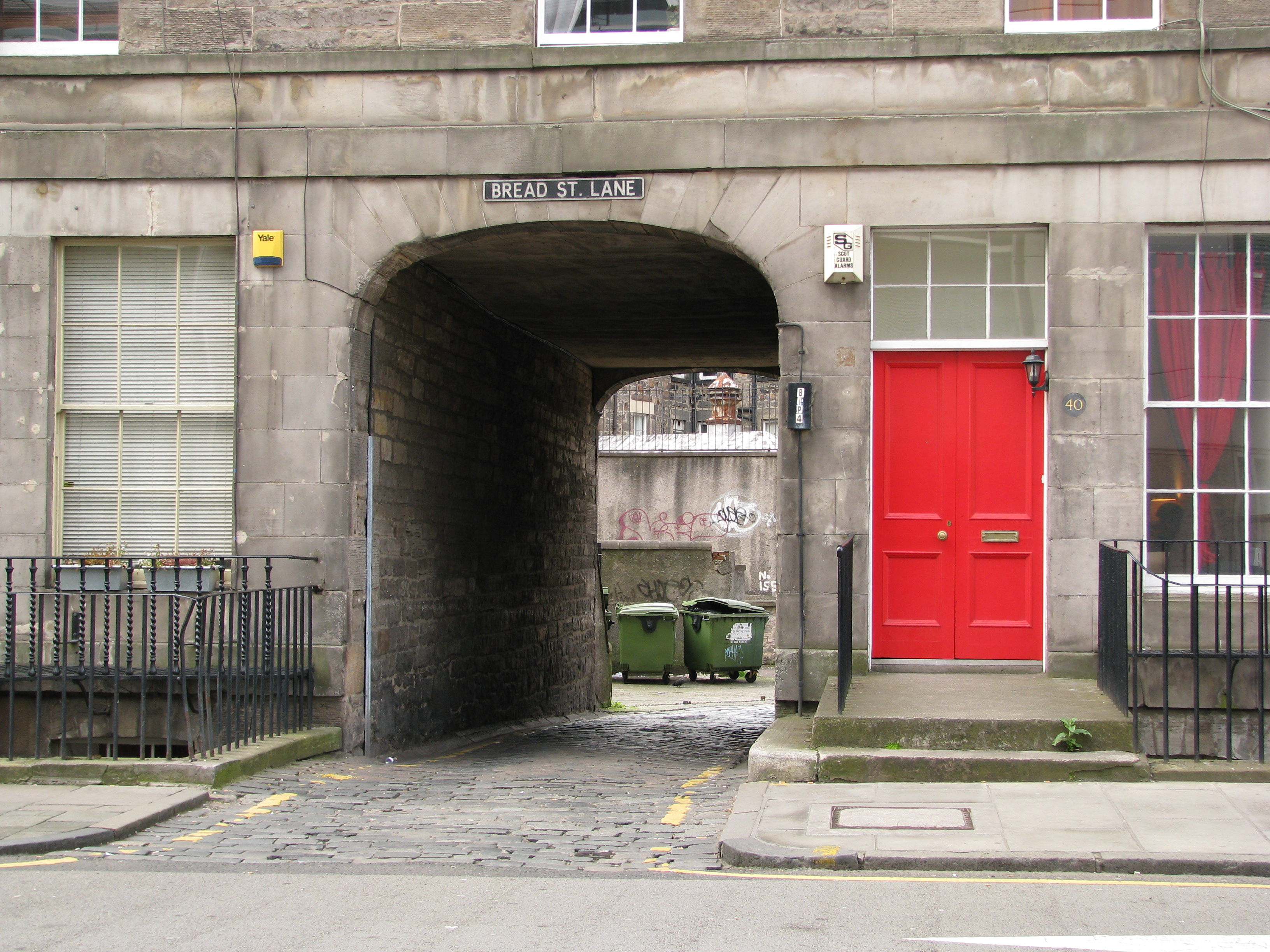 Bread Street Lane in Edinburgh, Scotland